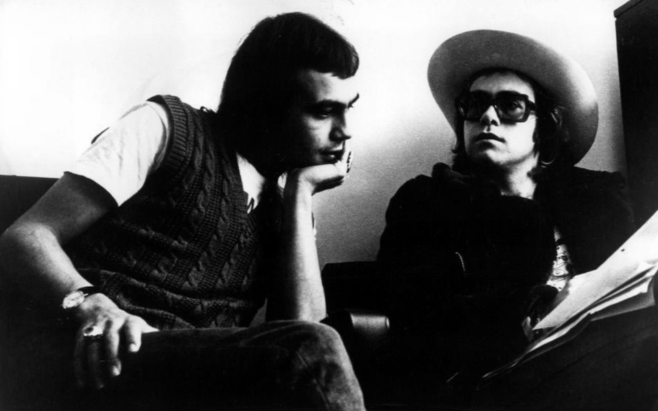 Publicity photo of Elton John and Bernie Taupin.